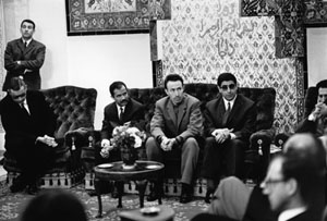 Houari Boumedienne